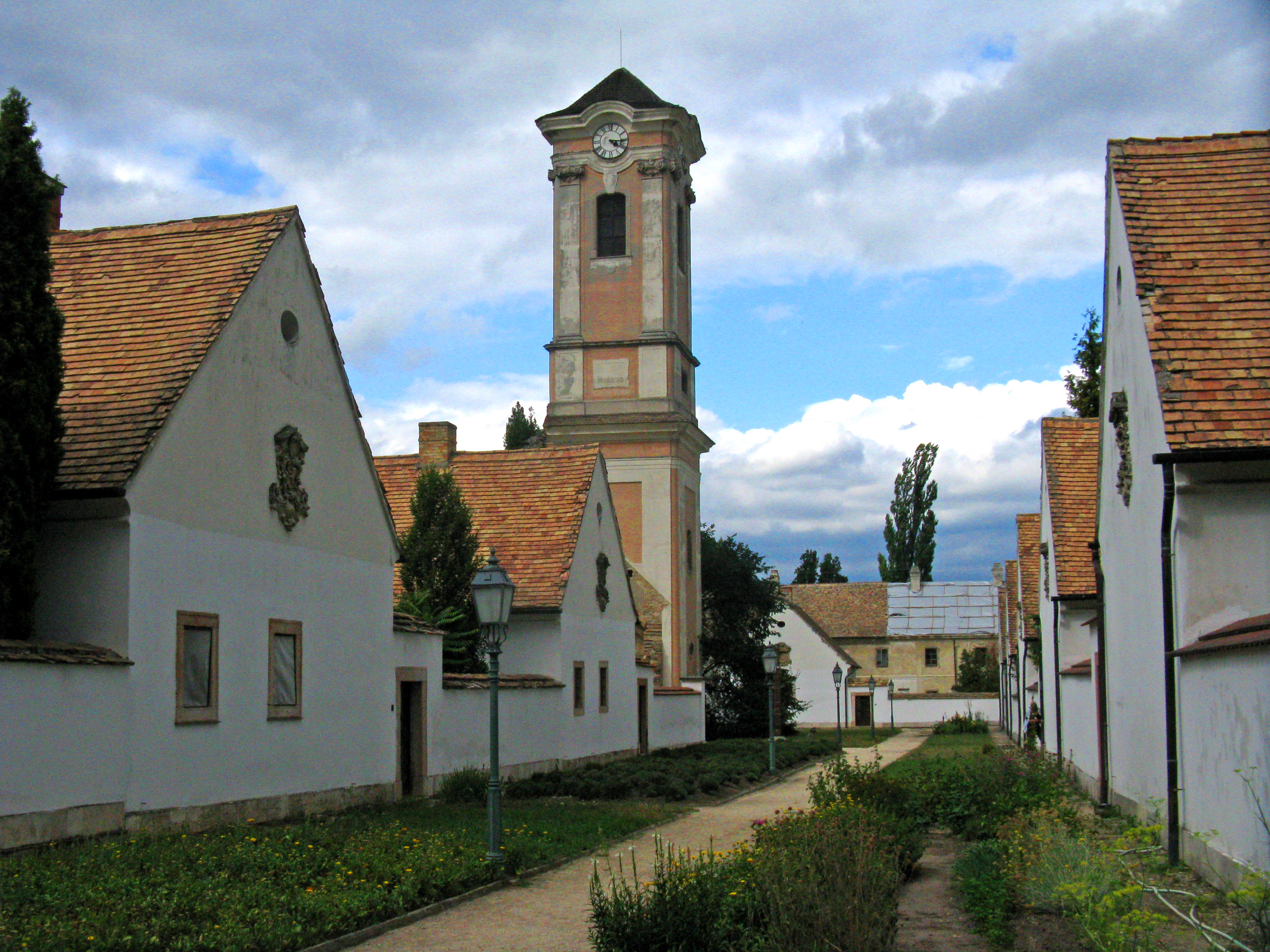 Camaldolese Hermitage In Majk